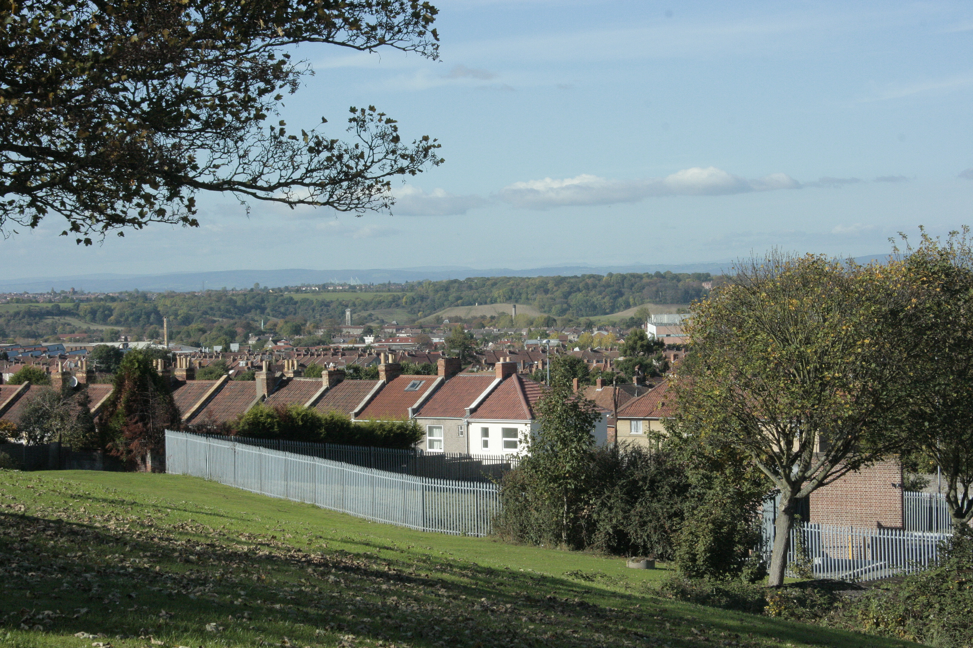 North of west from the top of Lodge Hill. Near Chester Park, Bristol. This image fits loosely between 1548892 to the left and 1548857 to the right. The substantial fence in the foreground surrounds an electricity sub-station. The houses beyond are on Woodland Way. Further over stands the clock tower in the grounds of Blackberry Hill Hospital, formerly Bristol Mental Hospital, where some of the external scenes in "Casualty", a TV hospital series on BBC 1, were filmed. Now look a little higher on the screen and you will see, I hope, very faintly, what the authorities call the Second Severn Crossing taking the M4 from Redwick to Caldicot. (In fact it is the fifth Severn crossing, sixth at least if you go back to prehistoric times).